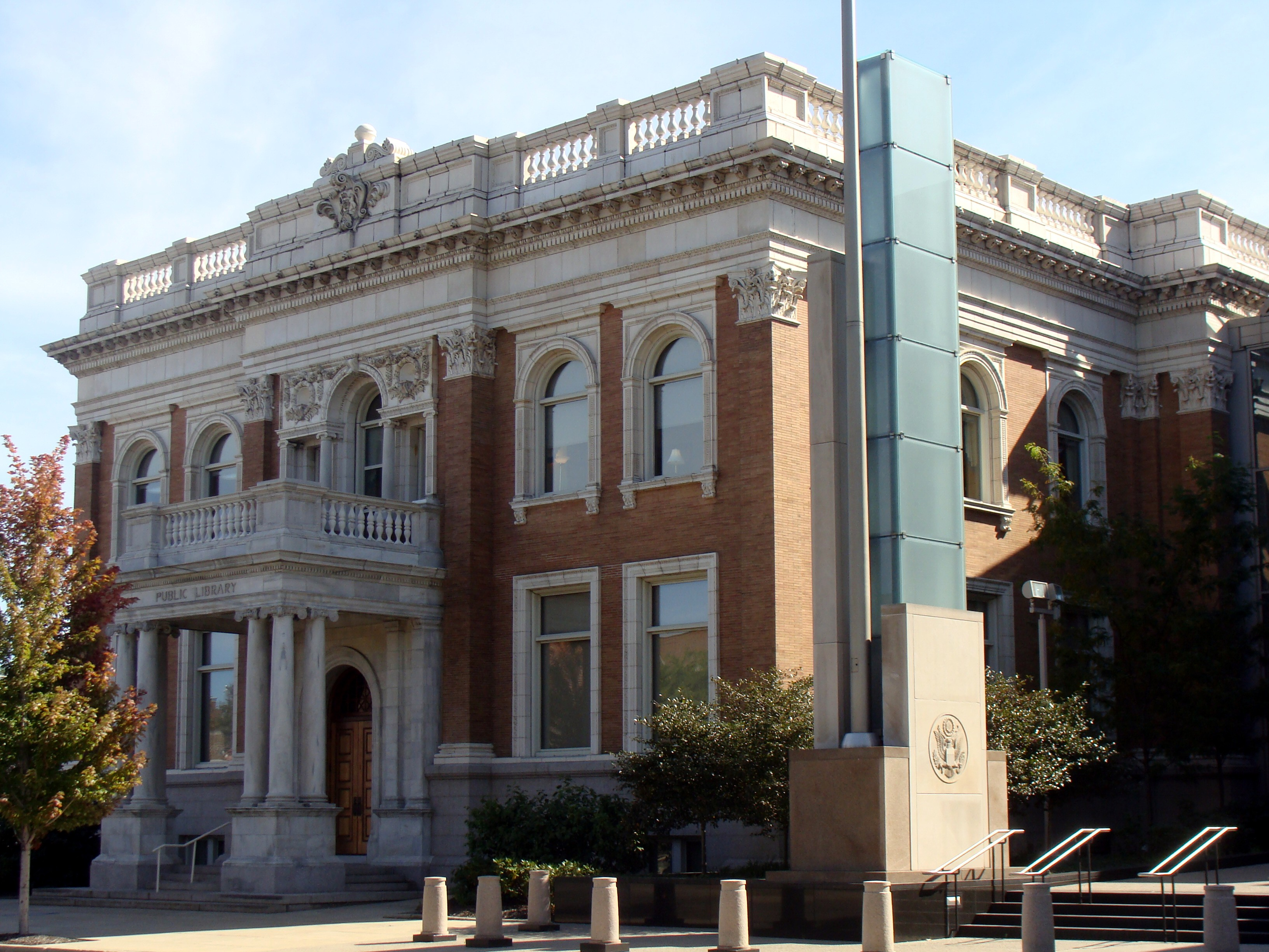 The former Main Library in Erie, Pennsylvania; now apart of the Erie Federal Courthouse complex. Listed on the National Register of Historic Places in 1979.